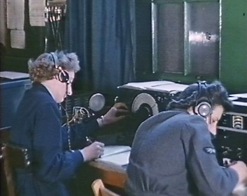 WAAF Corona System Radio Operators. Description at source: "German-speaking WAAF radio operators in England eavesdrop on German frequencies." The Corona system was where WAAF operators would eavesdrop on Luftwaffe Night-fighter frequencies and attempt to countermand their orders to cause consfusion